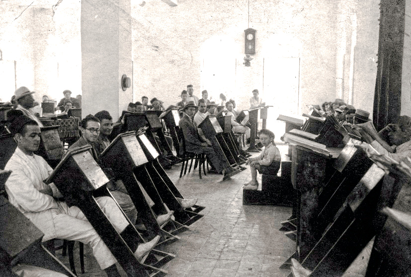 Hebron Slobodka yeshiva students in the study hall.